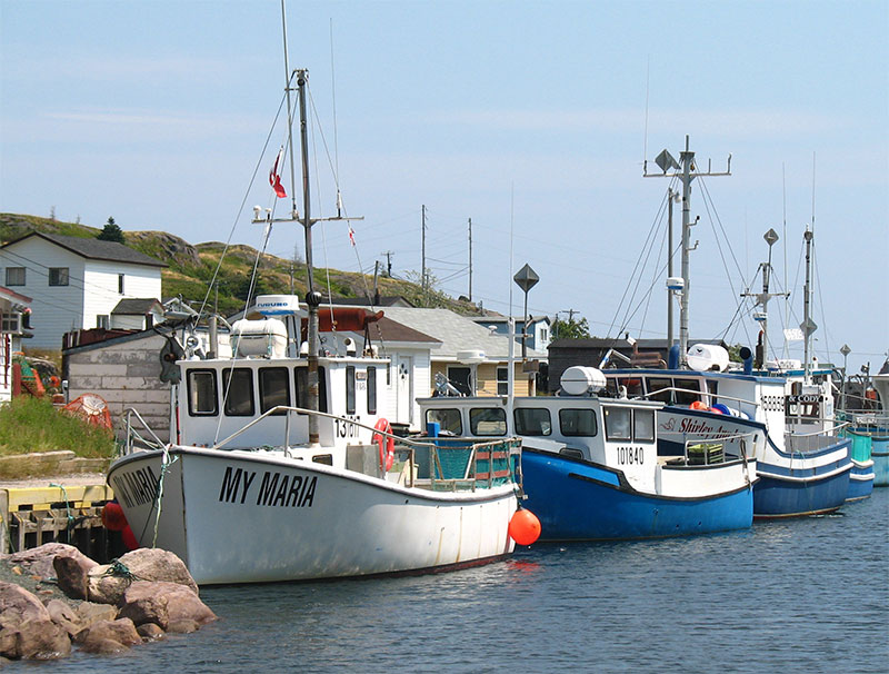 Boats at Petty Harbour, a Newfoundland outport.